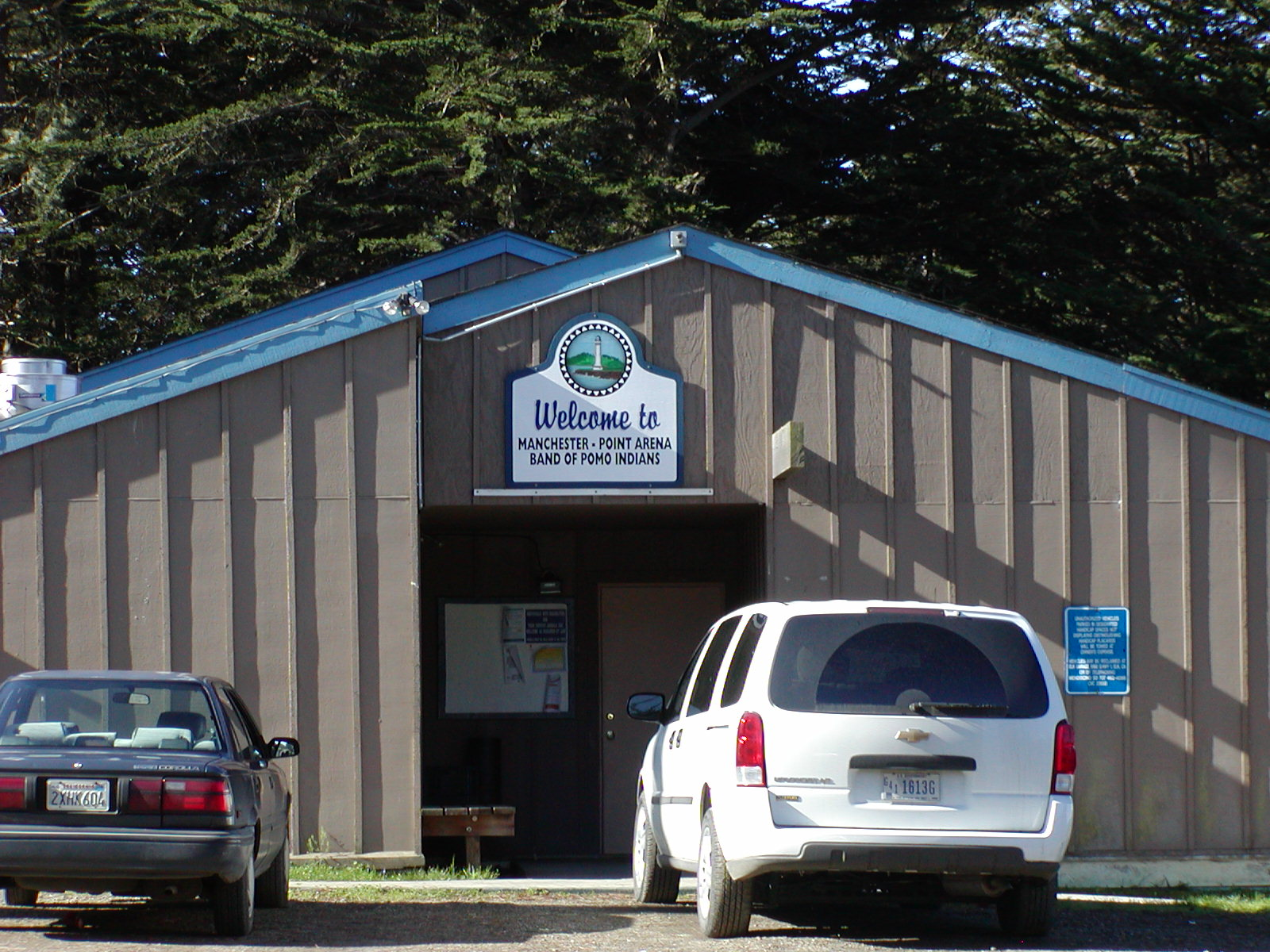 Manchester-Point Arena Band of Pomo Indians in Point Arena